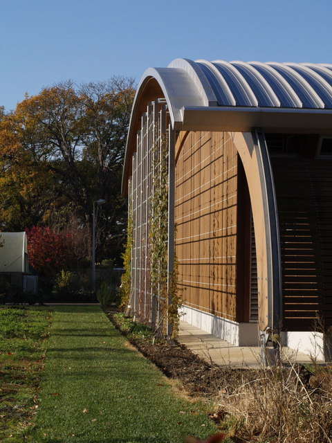 Plant Growth Facility, Cambridge Built in 2004-5. "A laboratory for the Department of Plant Sciences. The exterior is notable mainly for the curved glulam beams." Seen from the Botanic Garden.